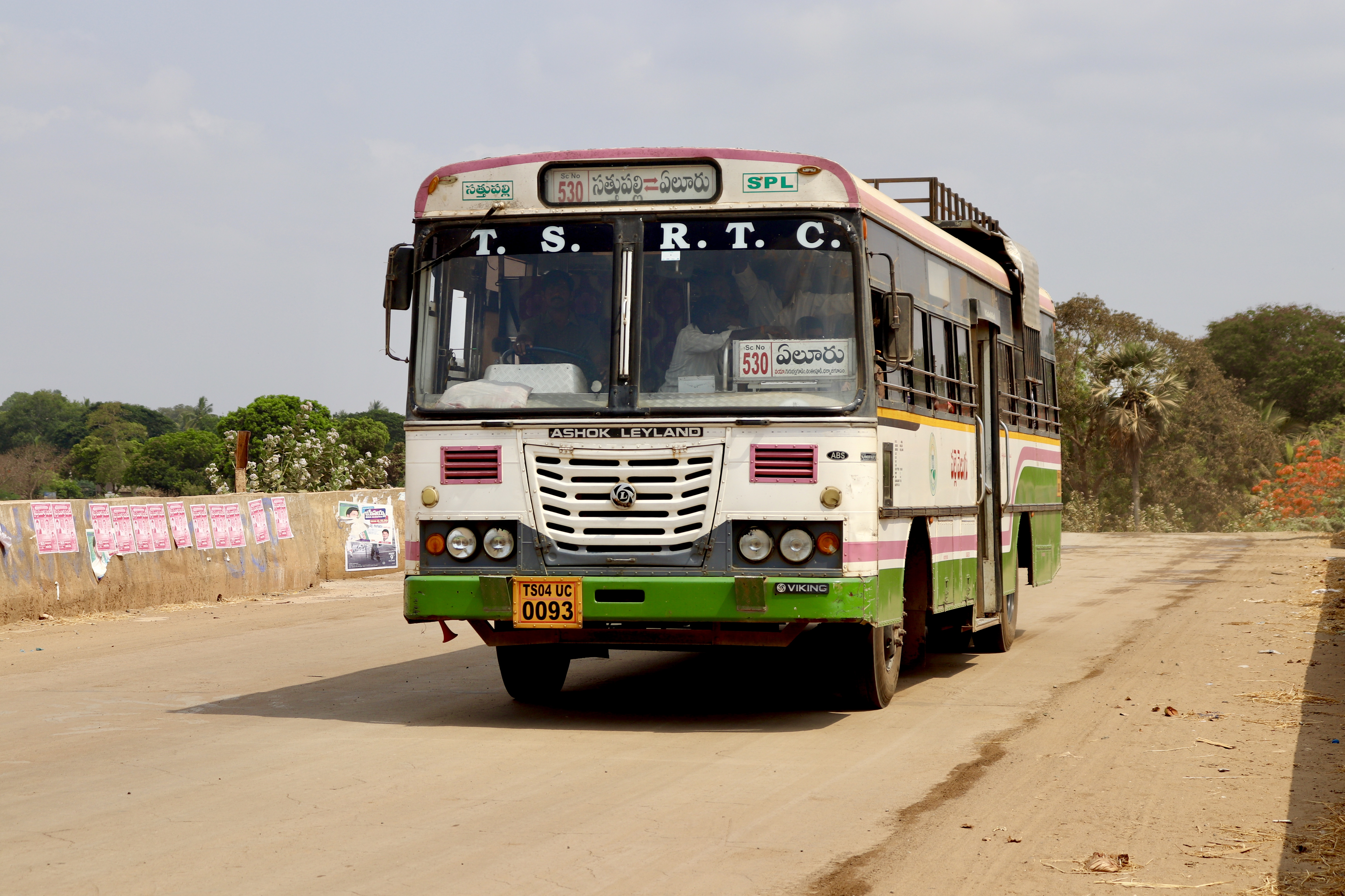 APS RTC bus on Polavaram Project